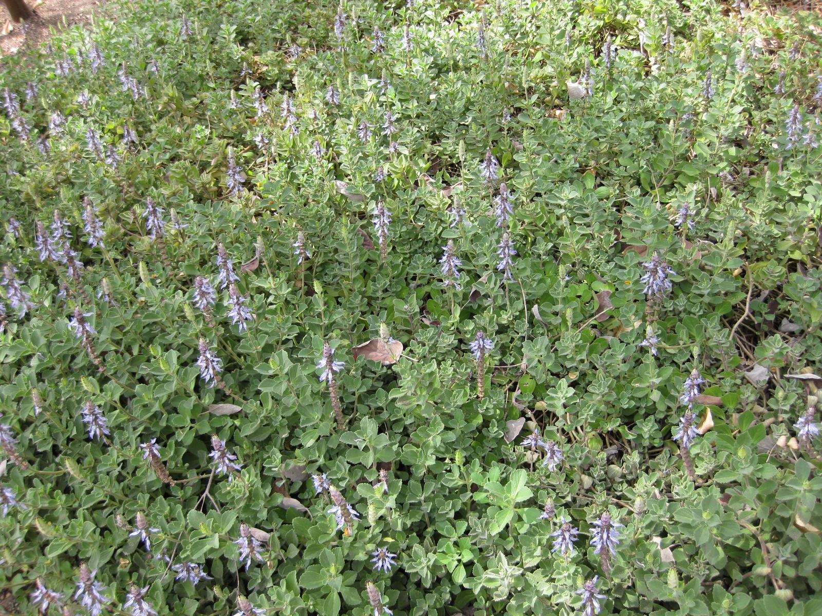 Photographed at Huntington Gardens (Los Angeles) in April